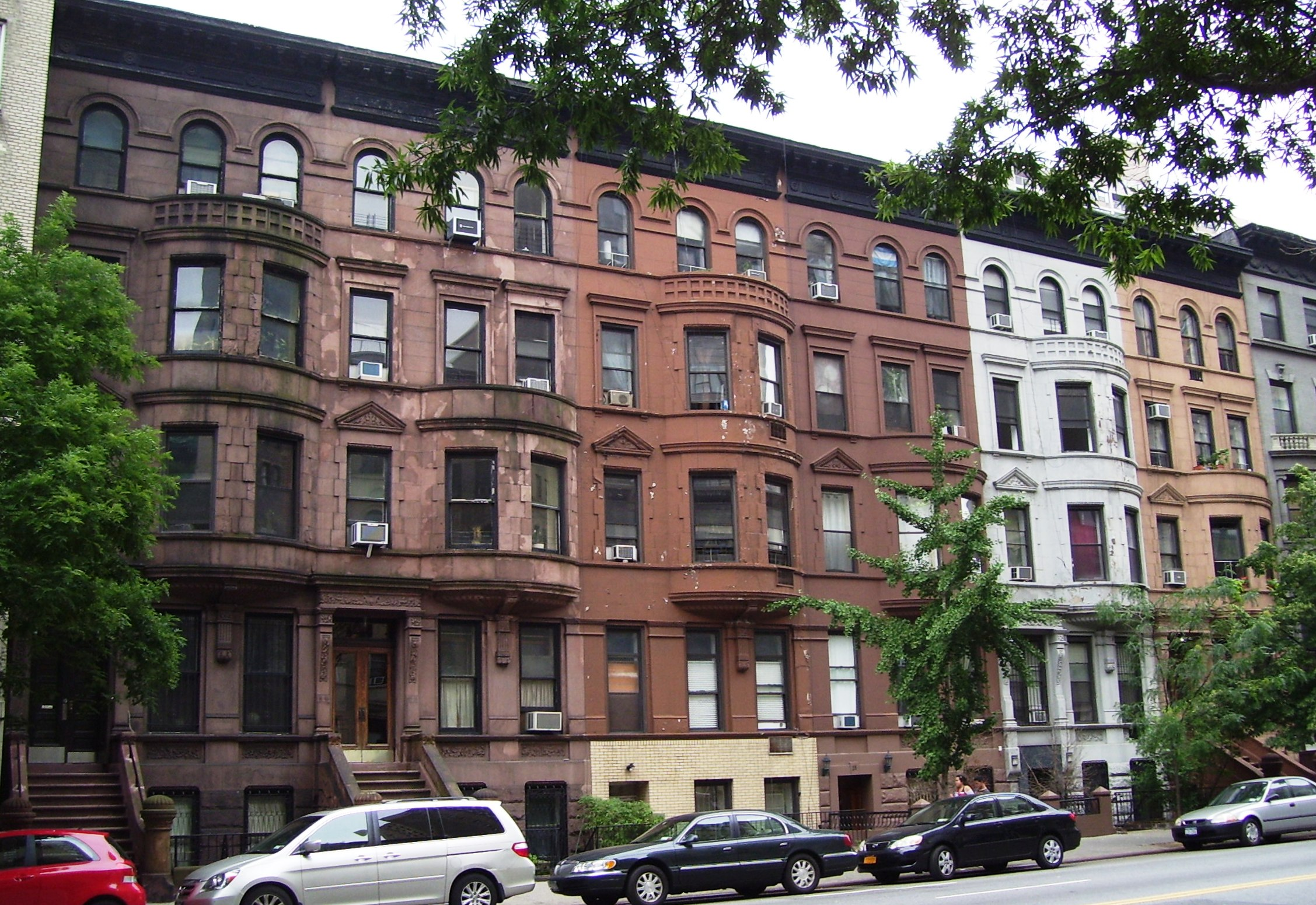 22-32 West 96th Street between Central Park West and Columbus Avenue in the Upper West Side neighborhood of Manhattan, New York City are 6 rowhouses built between 1891-92 and designed by Edward Kilpatrick in Renaissance Revival style. They are located within the Upper West Side-Central Park West Historic District. (Source: "NYCLPC Upper West Side - Central Park West Historic District Designation Report, volume 3")